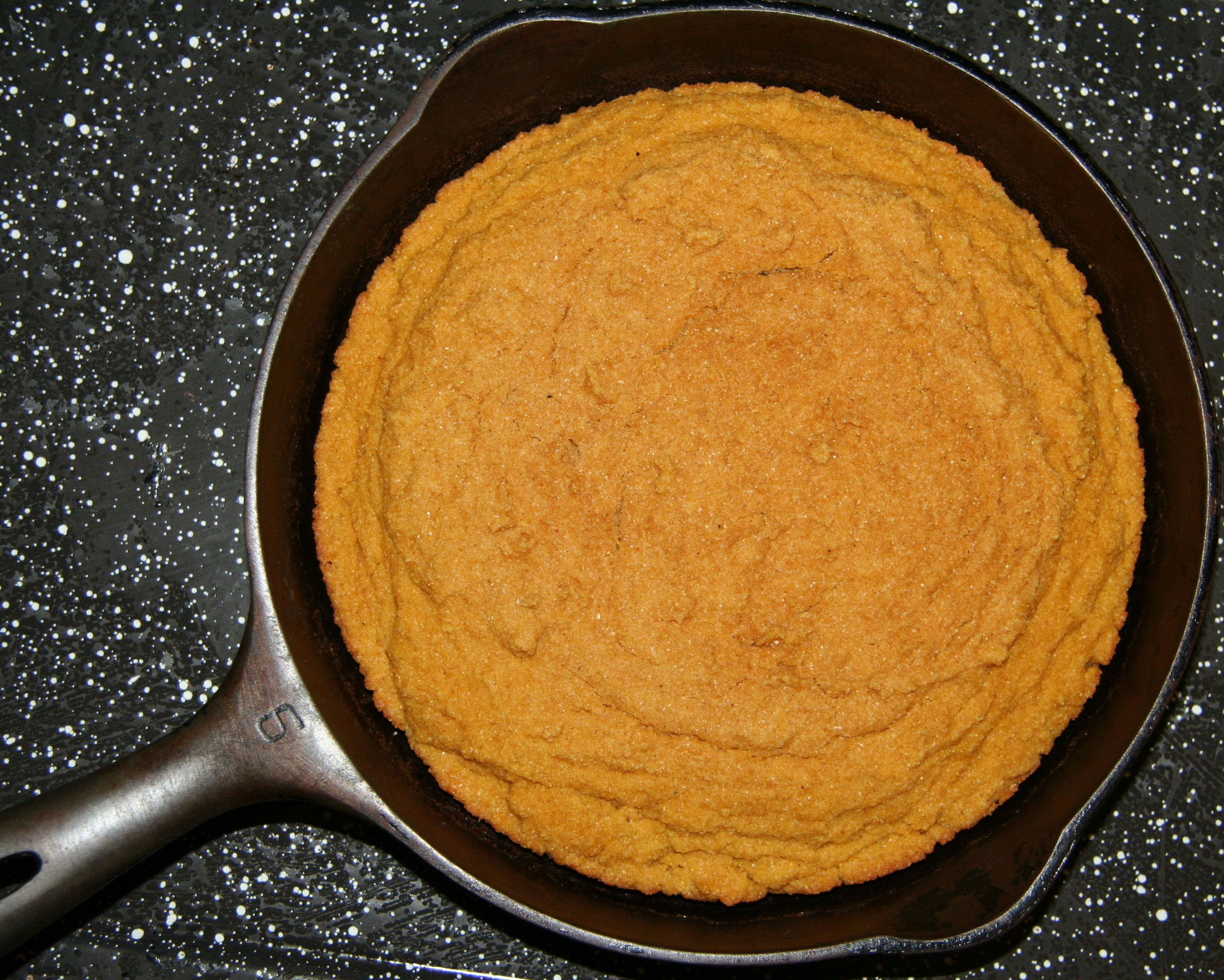 Homemade cornbread in a cast iron skillet